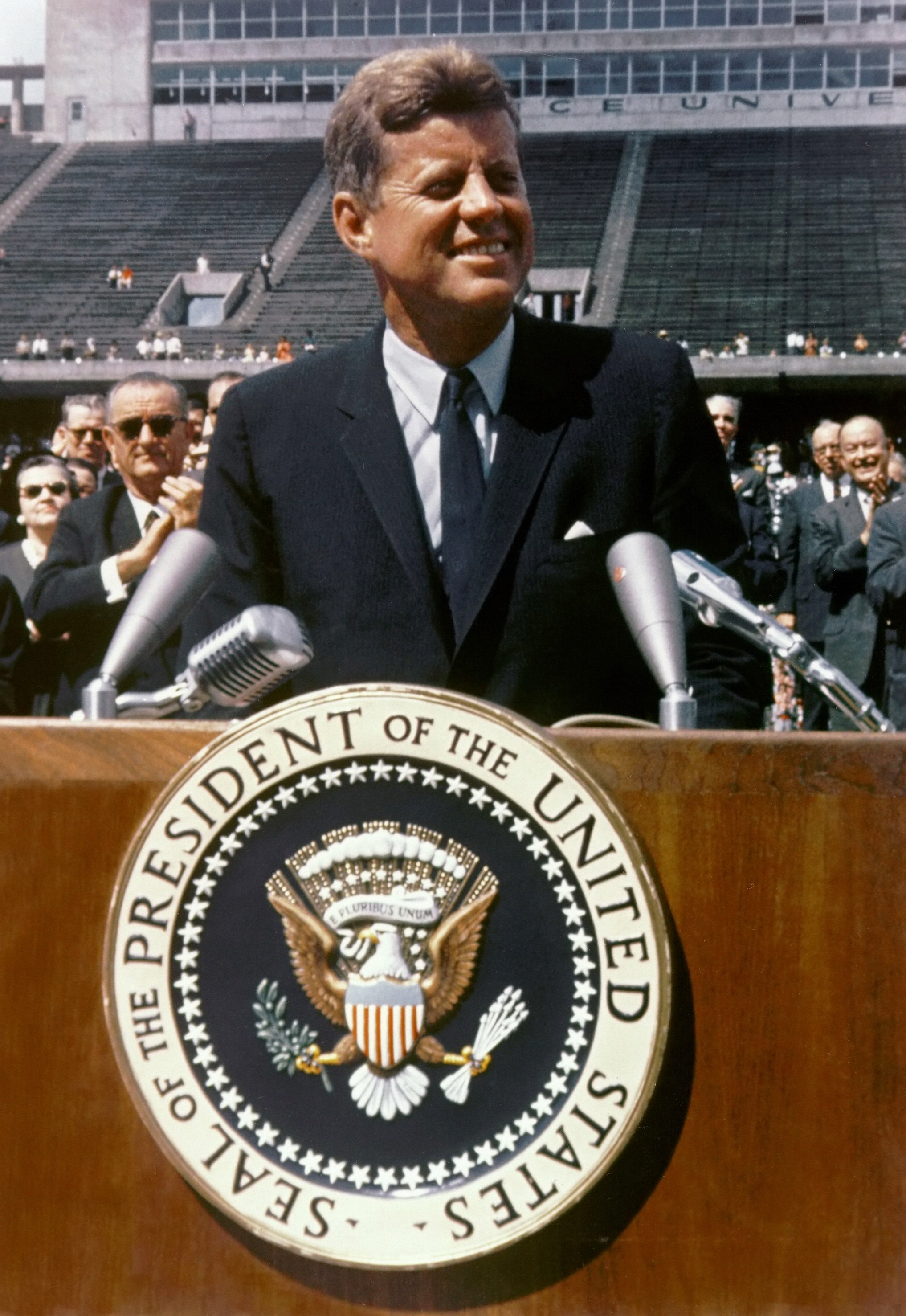 President John F. Kennedy speaks at Rice University 69-HC-1245